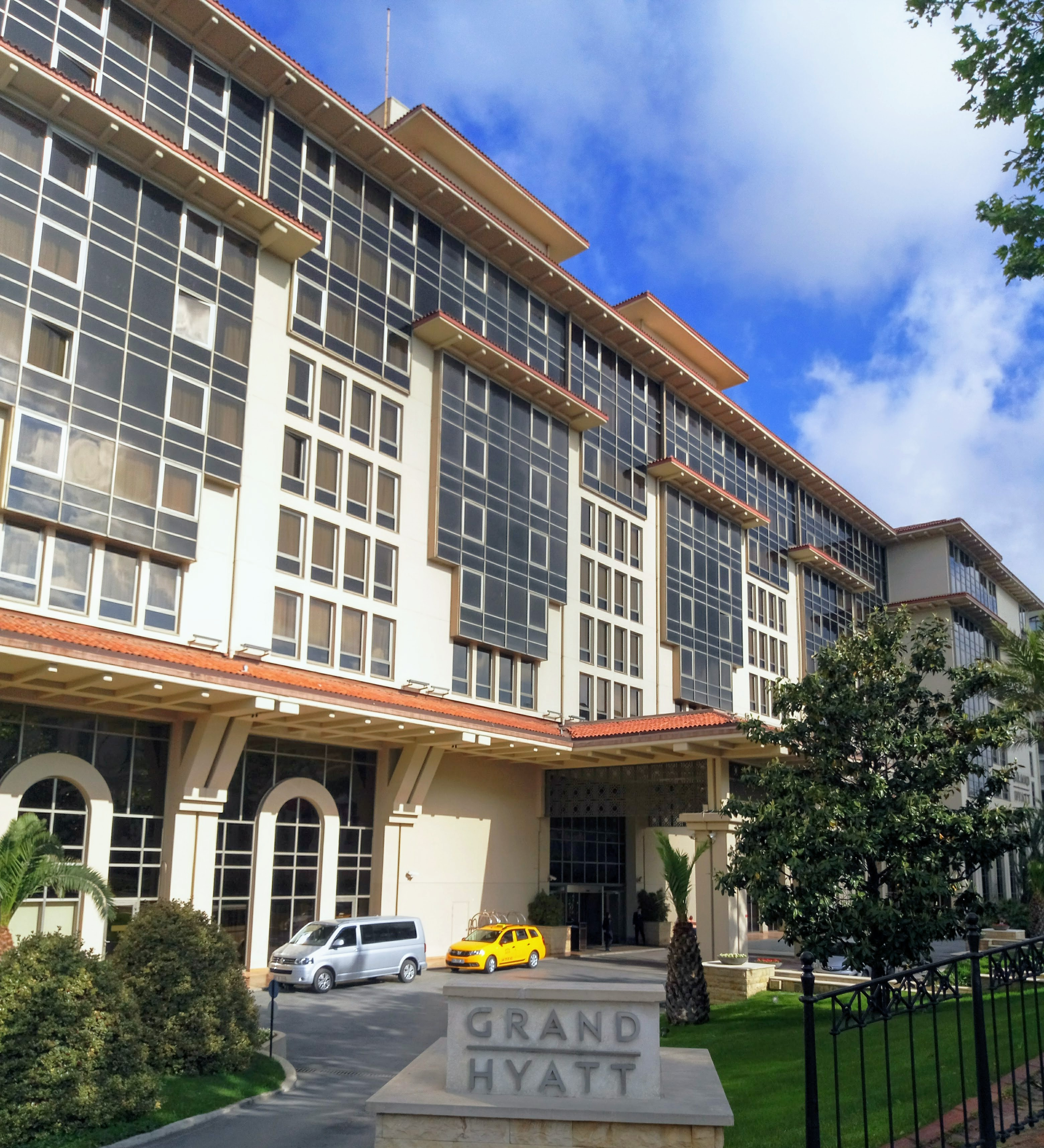 The Grand Hyatt Hotel in Istanbul